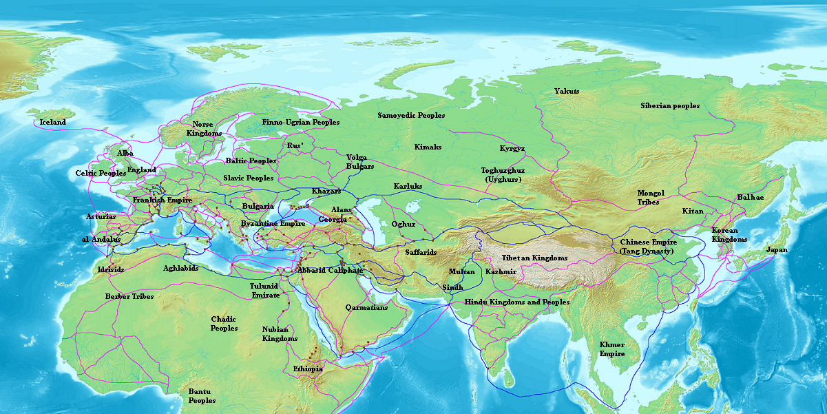 (Map of Eurasia and North Africa, c. 870 CE. Trade routes of the Radhanite Jewish merchants are shown in blue. Other major trade routes shown in purple. Cities with sizable Jewish communities are shown in brown. Some routes are conjectural.)